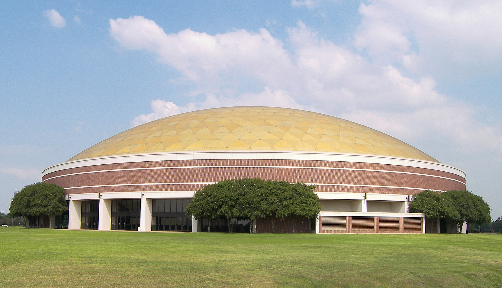 The Ferrell Center located in Waco, Texas, United States.